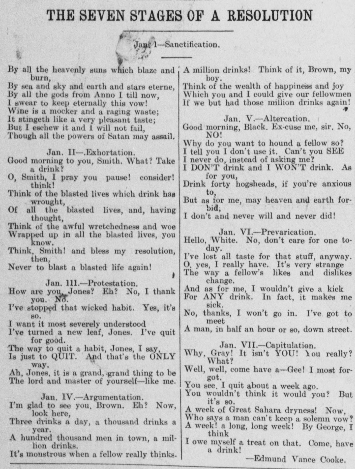 this poem describes the seven stages of complying with a New Year's resolution to stop drinking alcohol.